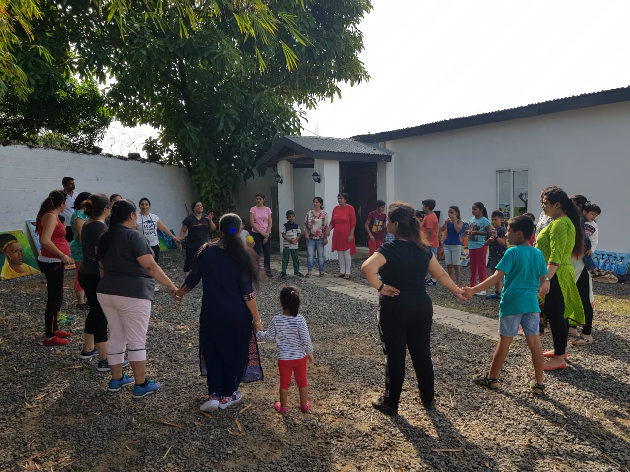 HSS Liberia sevika Shakha started separate on 16th December 2018